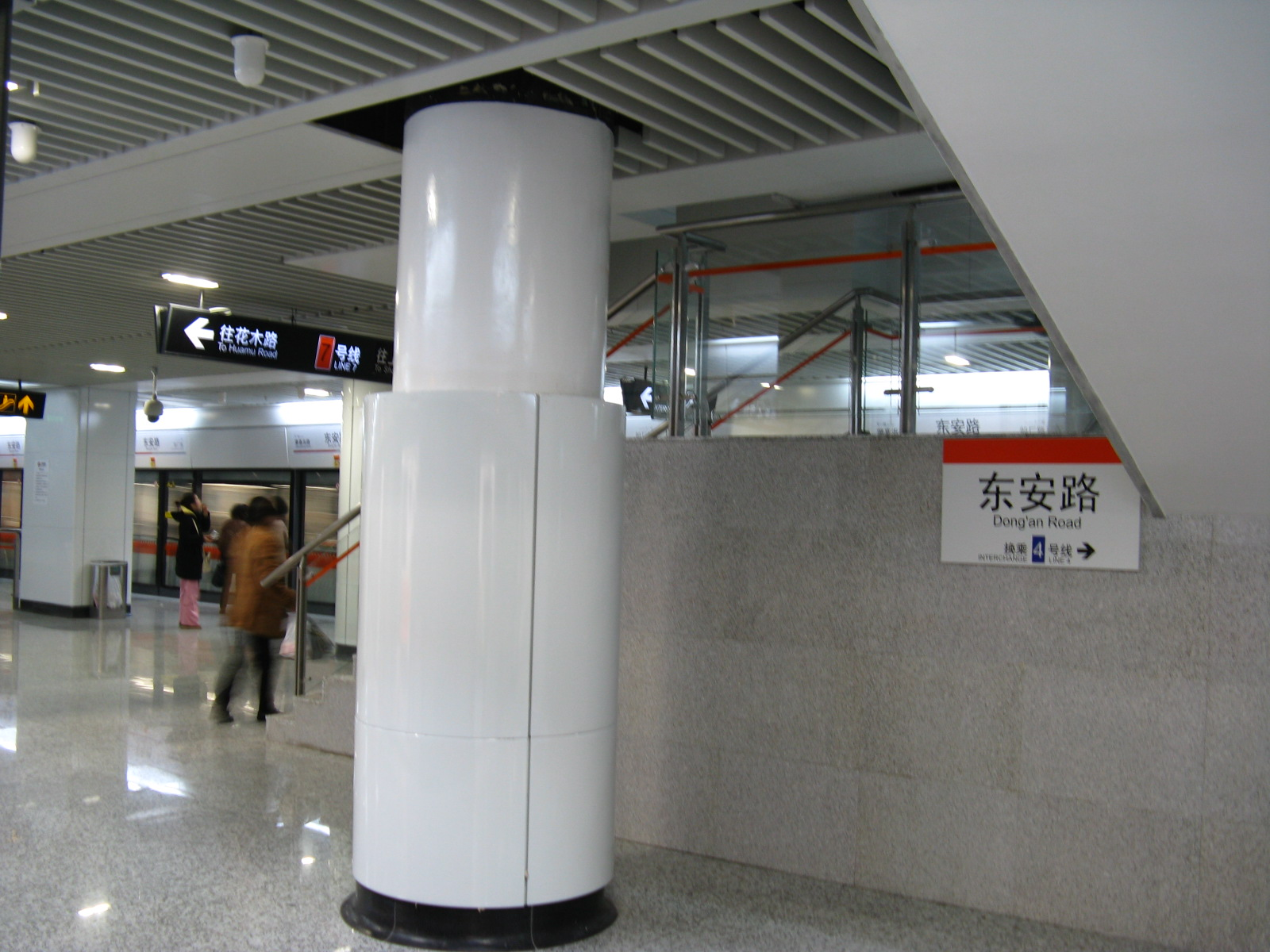 Dong‘an Road Station Line7 Shanghai Metro